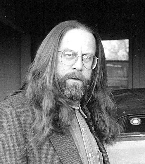 Depicted person: Gregory Gibson – American writer